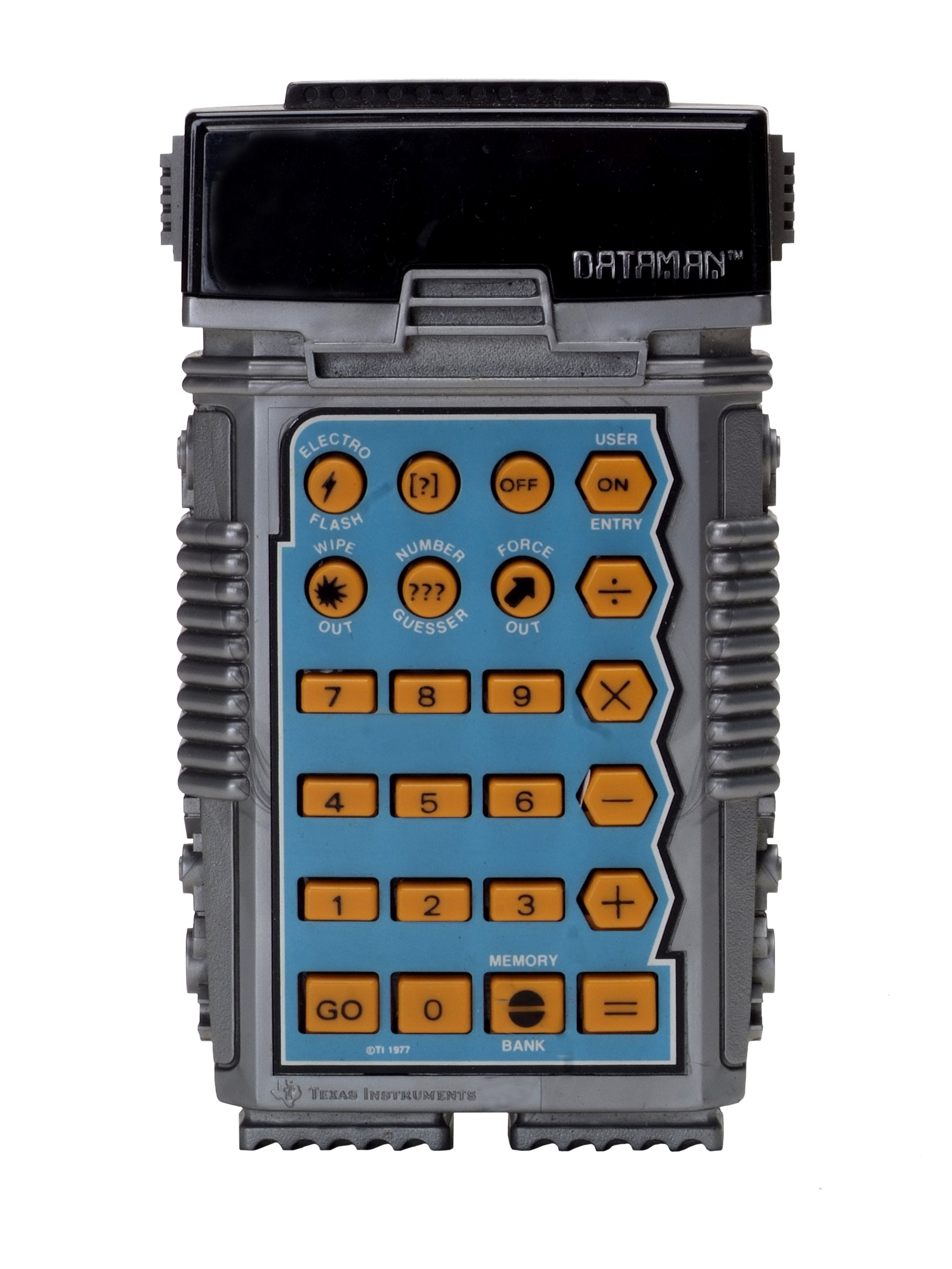 2009-046-215. Dataman Educational calculator by Texas Instruments